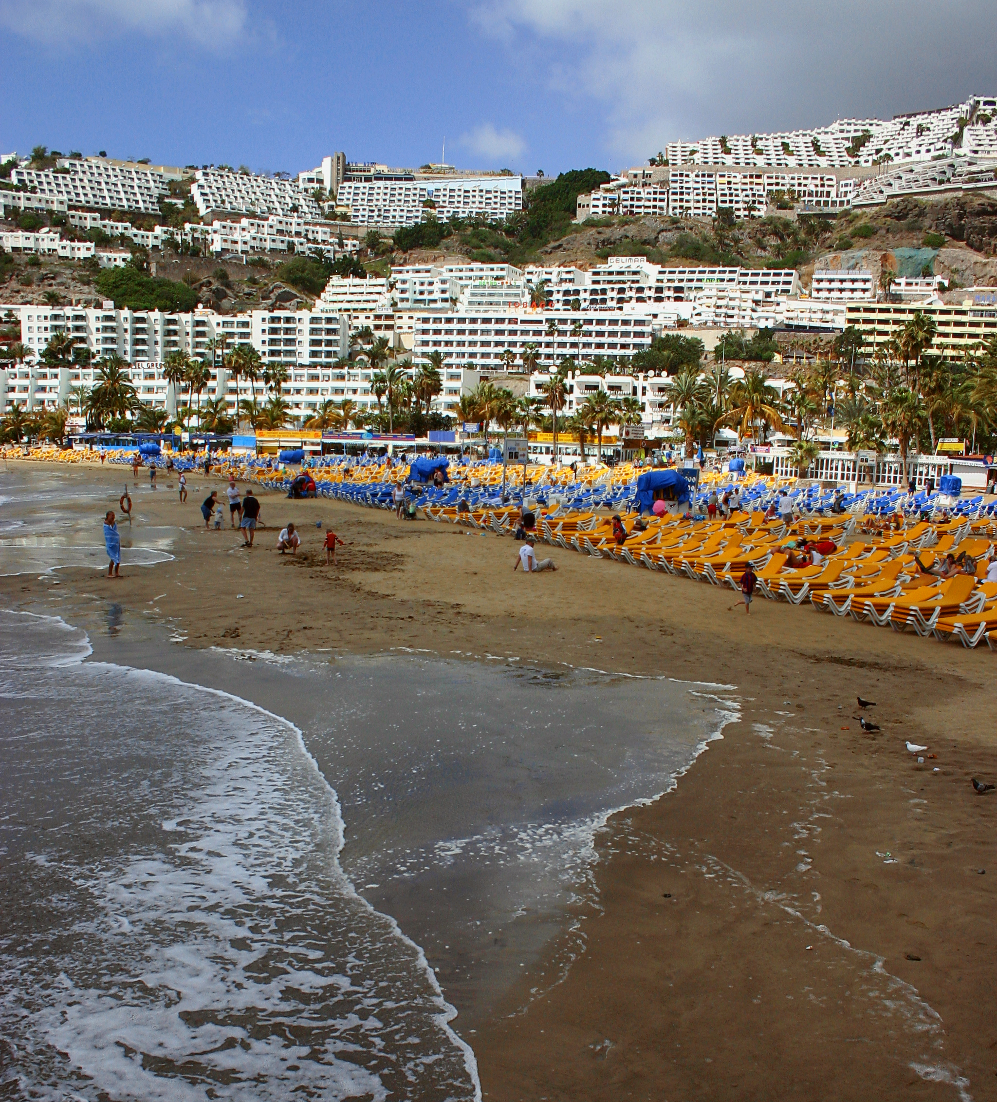 Beach & Urbanization of Puerto Rico, Mogán (Gran Canaria, Canary Islands. Spain)